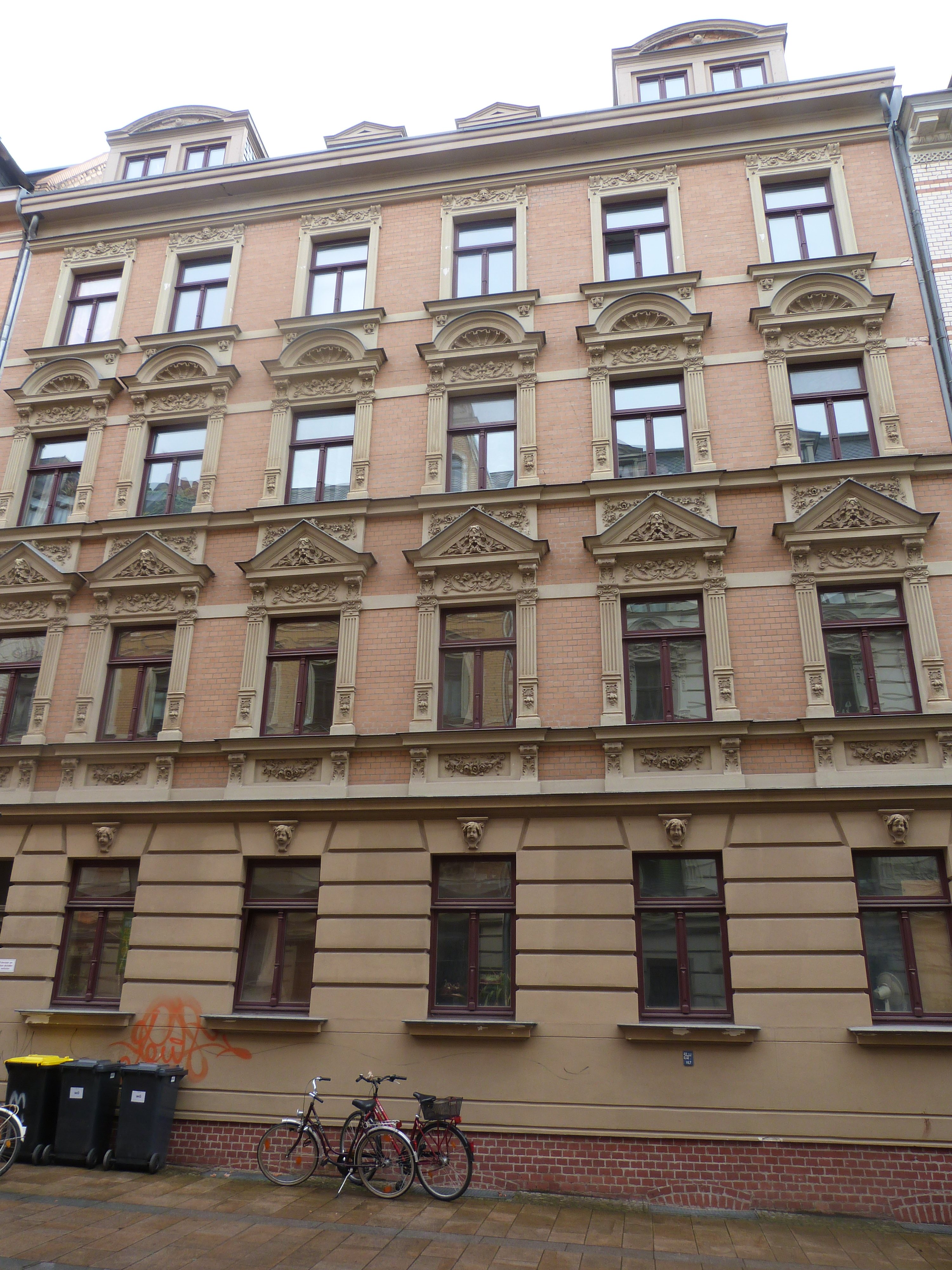 Street Sternstrasse No. 12, Halle (Saale)